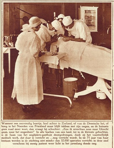 Operation in the Hospital for Eye-Patients, Utrecht, Netherlands